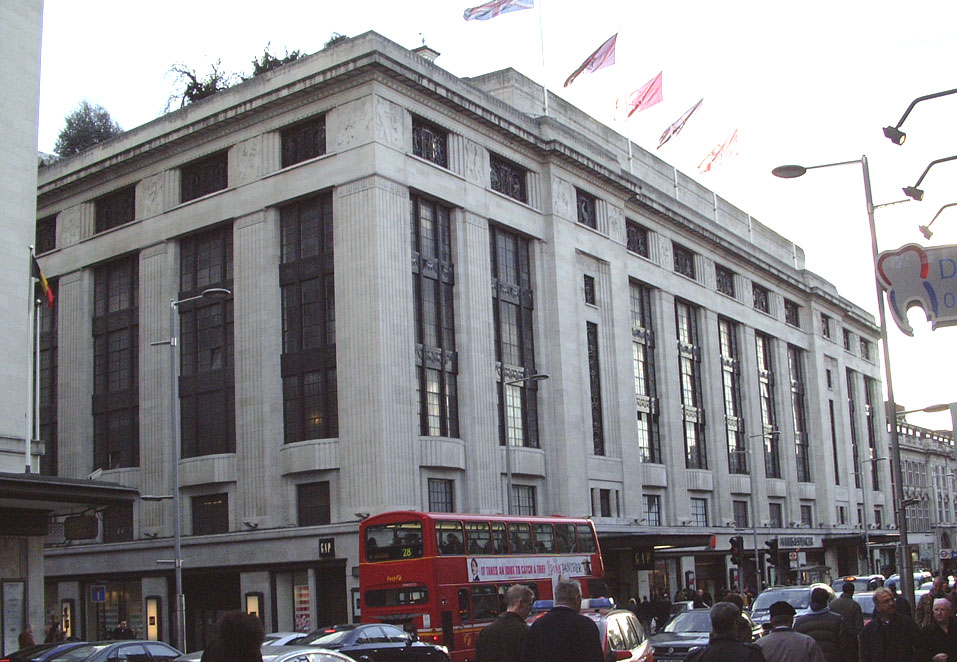 The Derry and Toms building on Kensington High Street, with the Kensington Roof Gardens on top. Picture taken by me, Thomas Blomberg